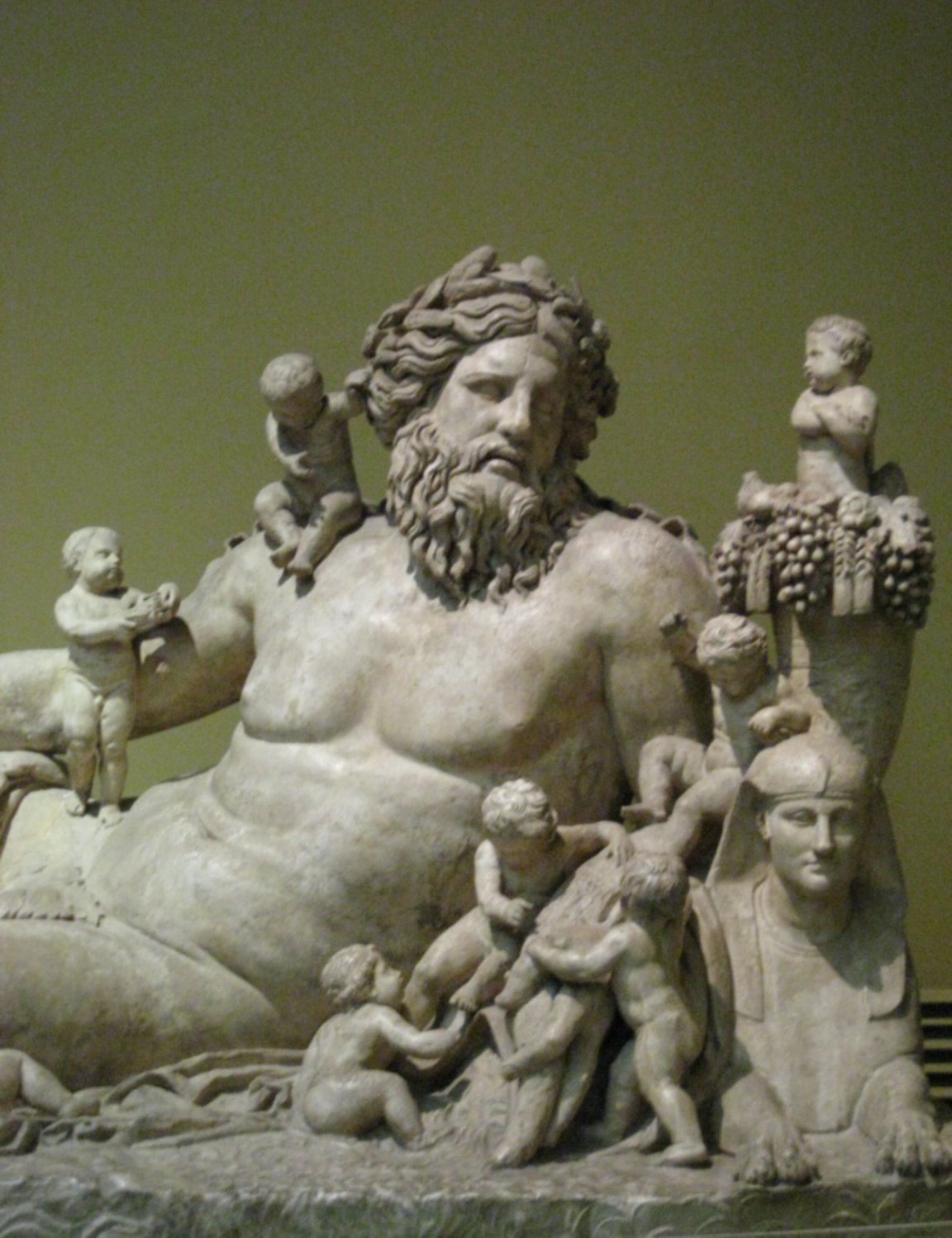 Personification of Nile river with all its tributaries as children. Plaster cast of original in Vatican, Museo Pio-Clementino.